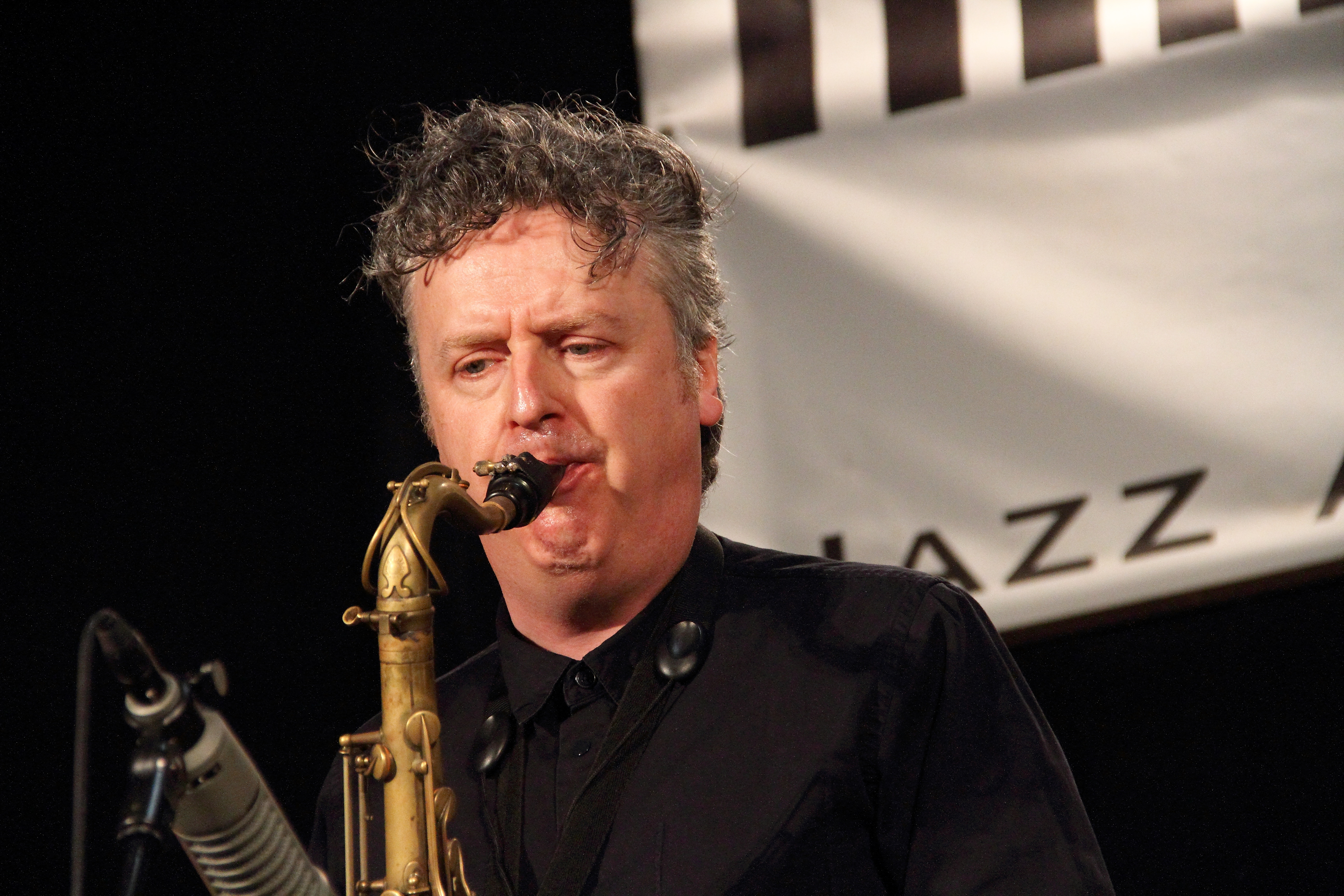 The Julian Siegel Quartet at INNtöne Jazzfestival 2018.